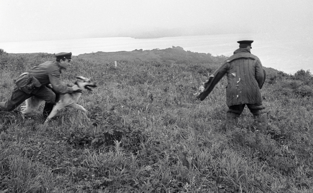 “"Trespasser" crossing the border”. Patrol dog detains "trespasser" of the border during an exercise.